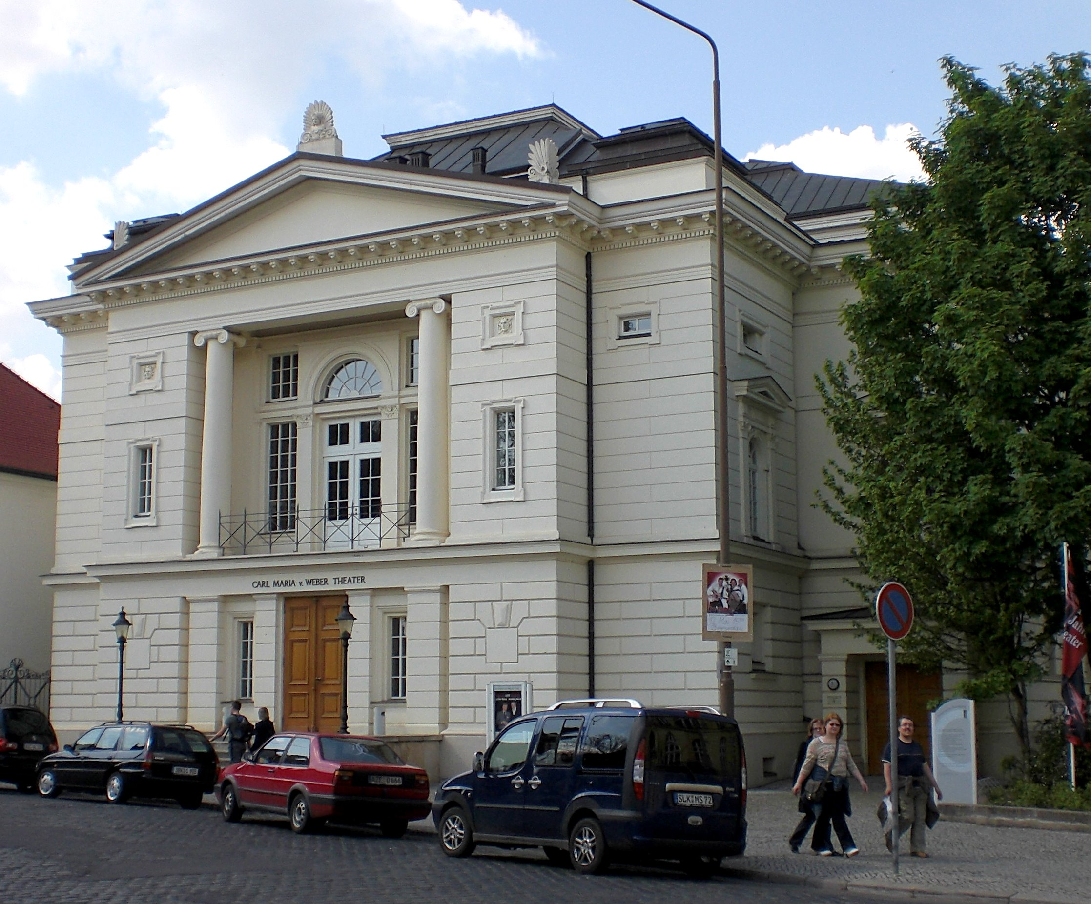 Theater in Bernburg